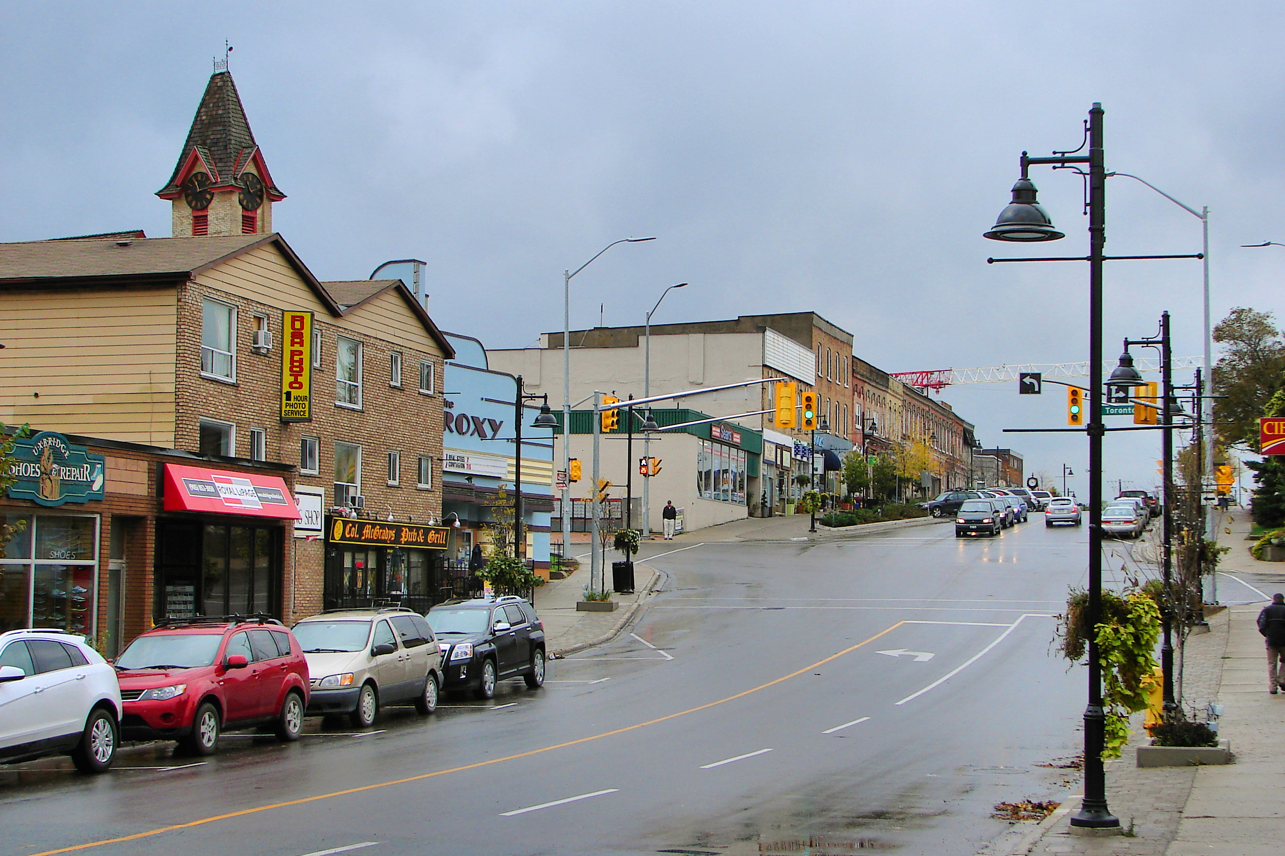 Uxbridge, Ontario, Canada